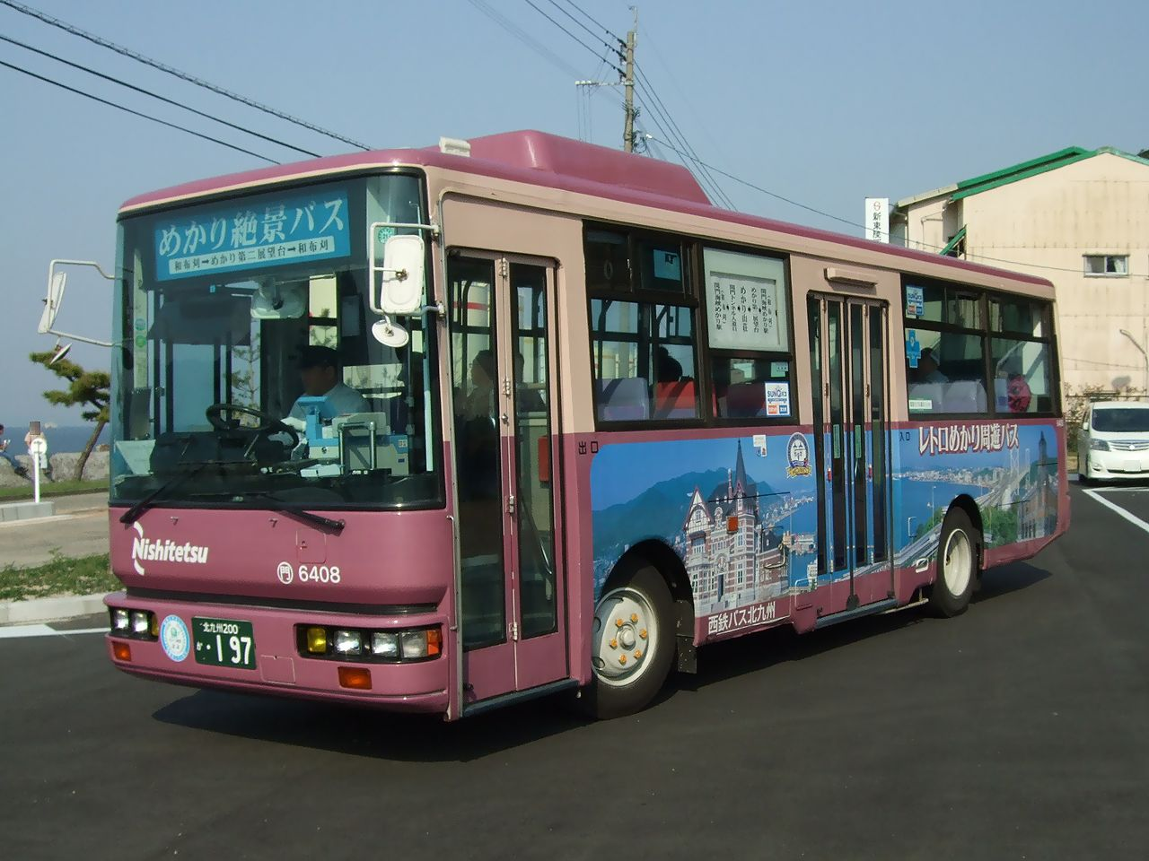 Mekari Zekkei Bus